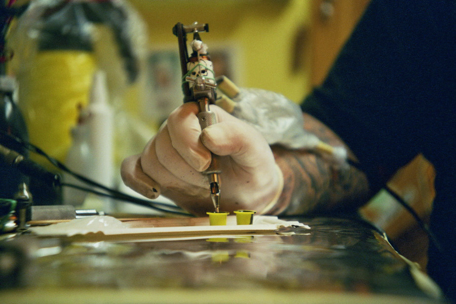 It´s a Tattoo-Machine from the side... It looks great, when you put the sharpness of the back away... I photographed it by myself. The Tattoo-Artist allowed me to make it public.